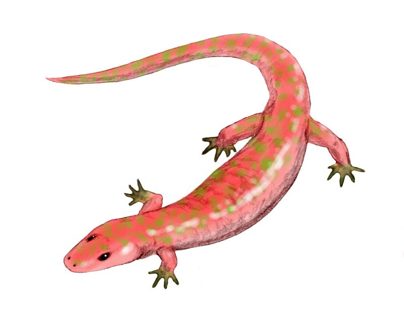 Albanerpeton sp, a salamander-like lissamphibian (Order: Allocaudata) from the Late Cretaceous of North America, pencil drawing